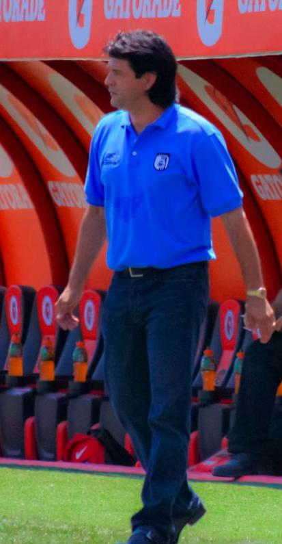 Former Paraguayan player Jose Cardozo